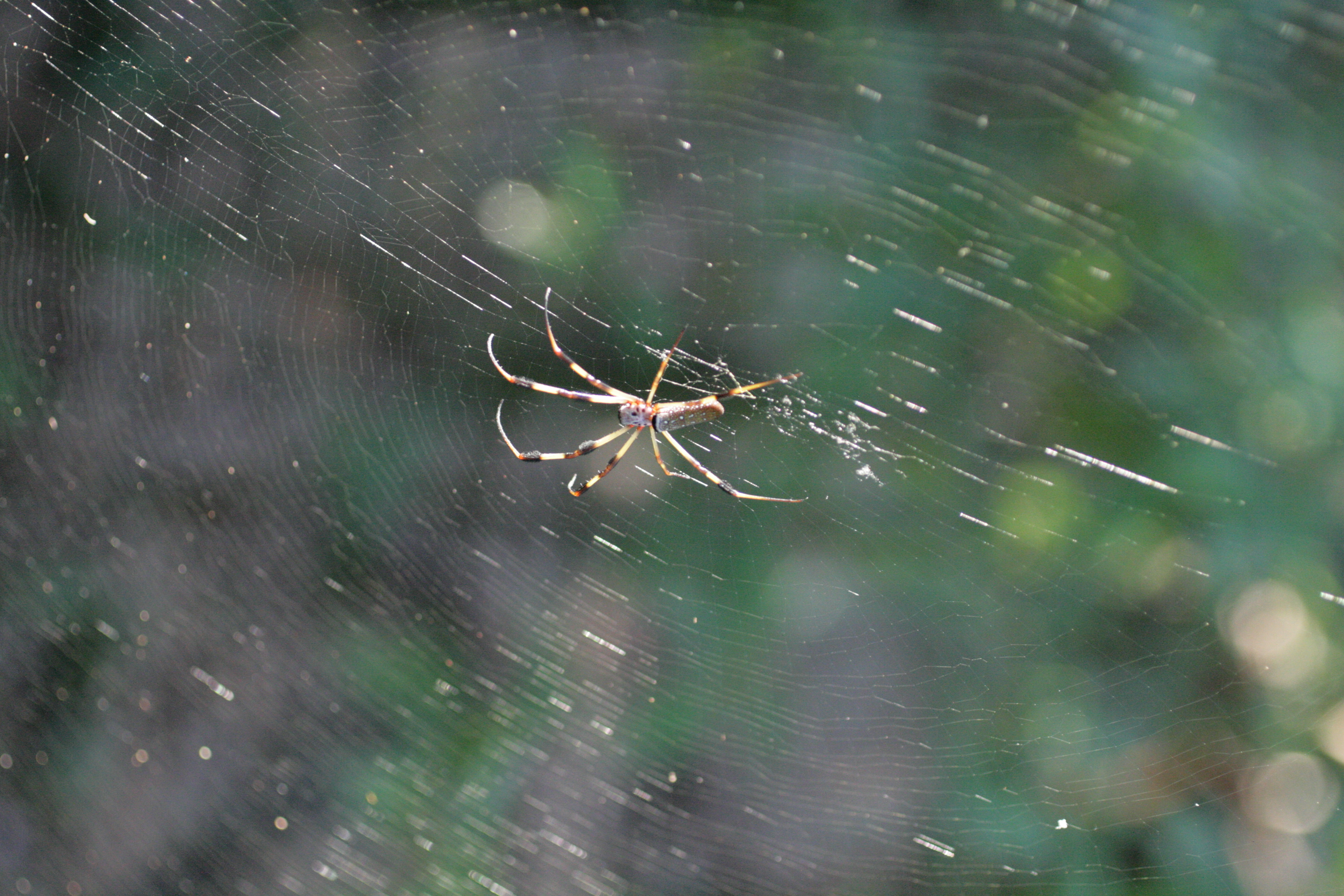 Nephila clavipes in its web. Picture taken in Fern Forest, Florida.